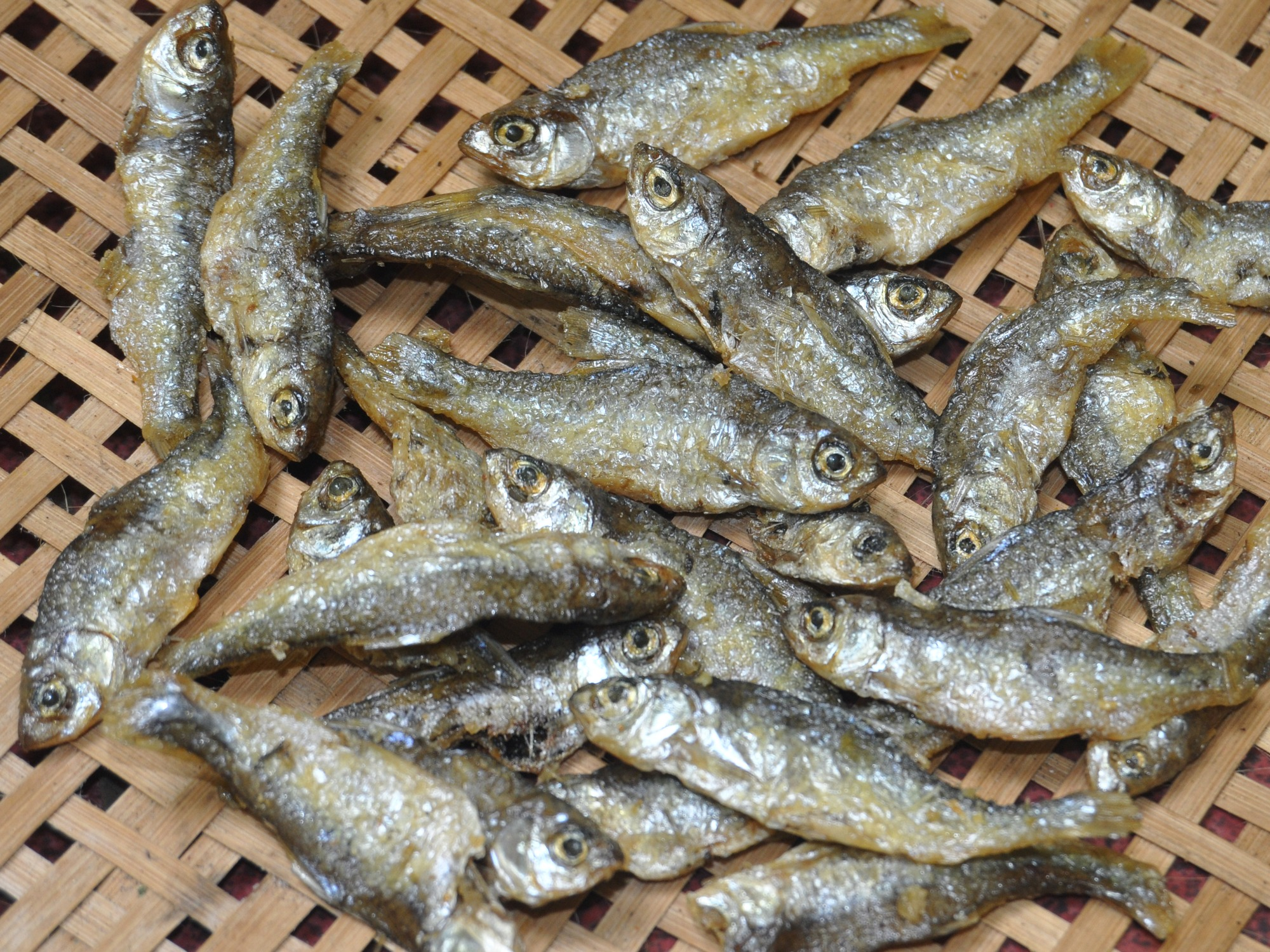 Bilis (Mystacoleucus padangensis); dried fish bought from local market at Padang, West Sumatra.